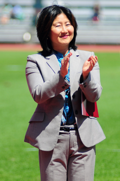 Yonah Martin, Canadian Senator from British Columbia